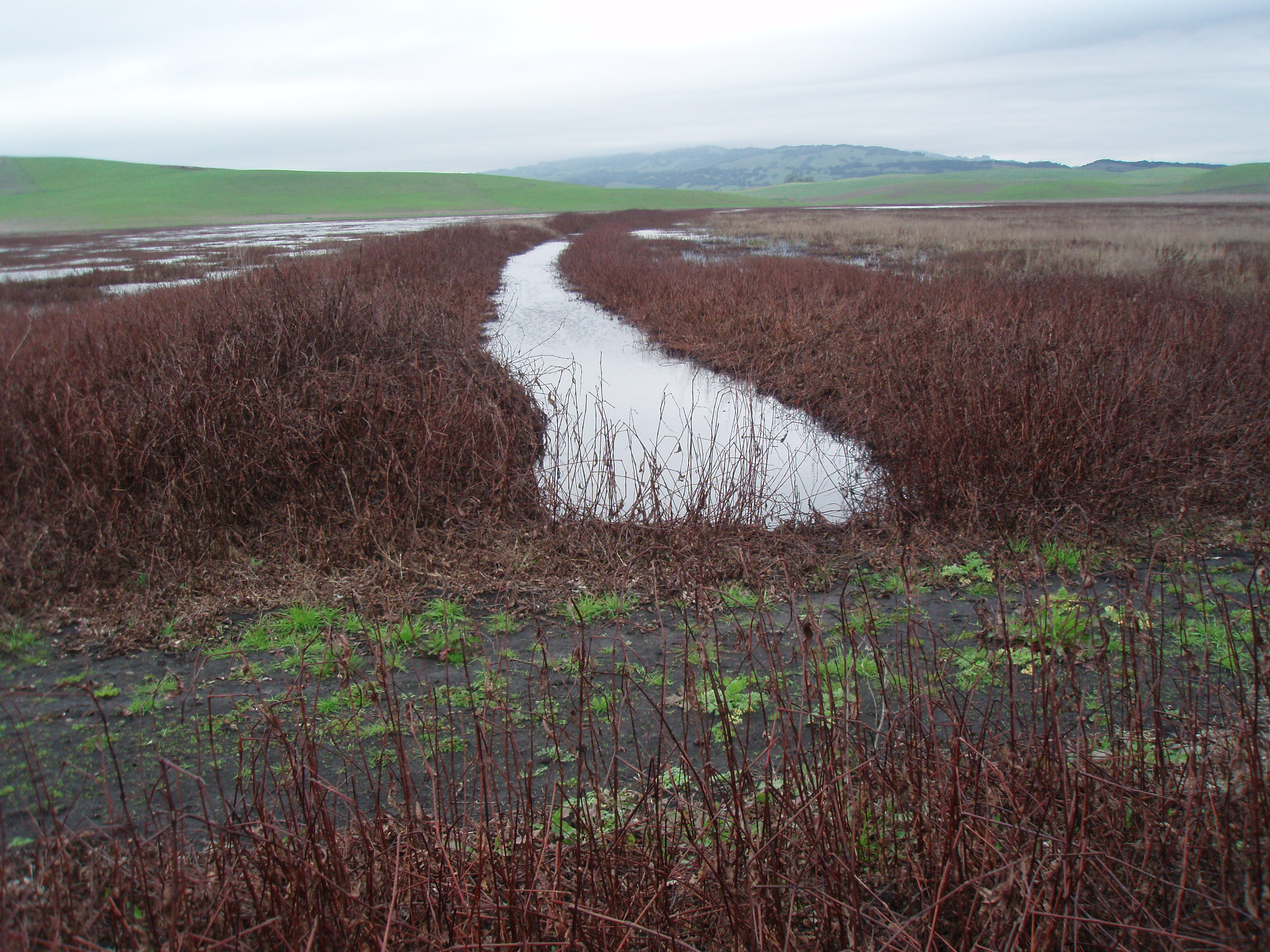 Looking west across upper tolay lake from earthen causeway, sonoma county calif USA